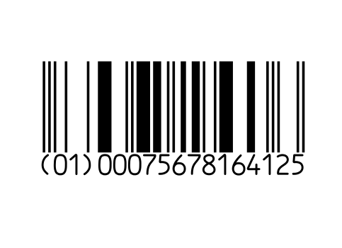 Author:Gs1mo